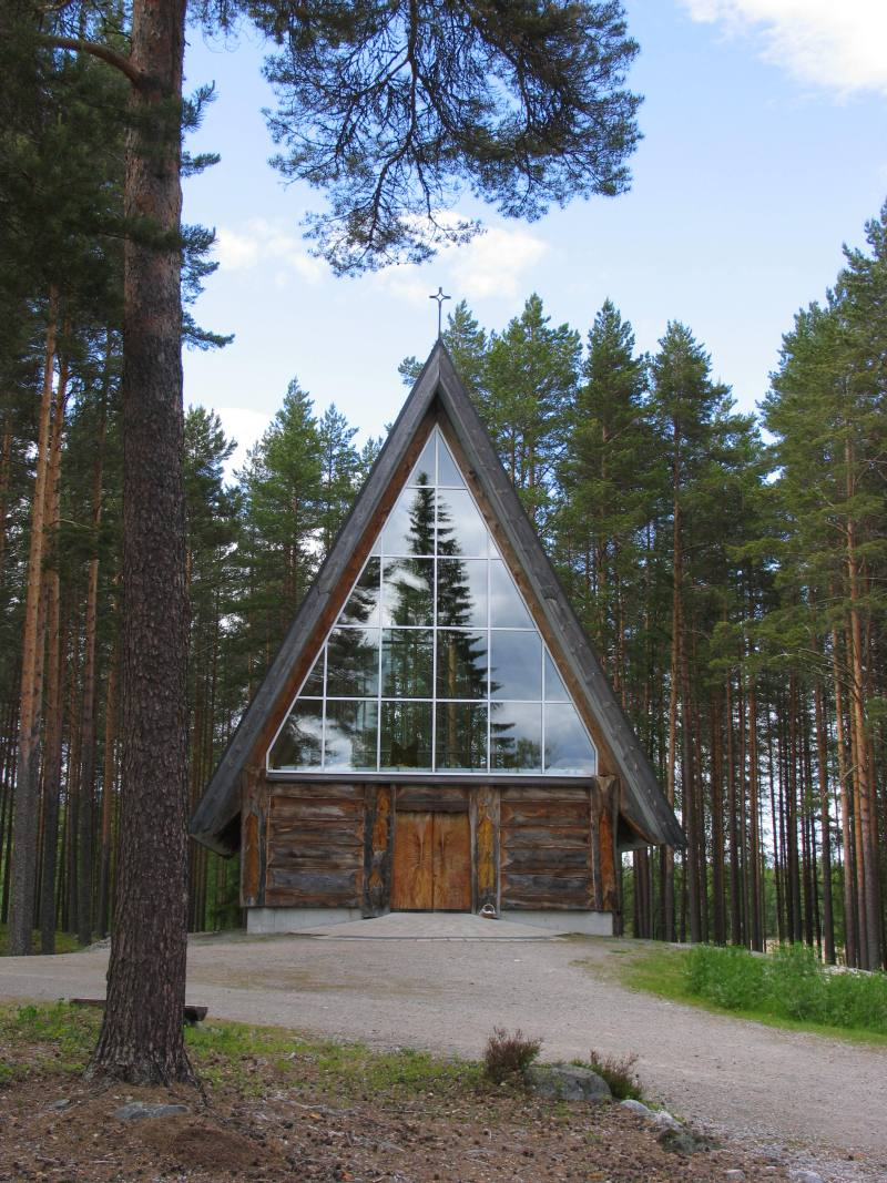 Paateri church (1991) in Lieksa, Finland. The church was build by sculptor Eva Ryynänen